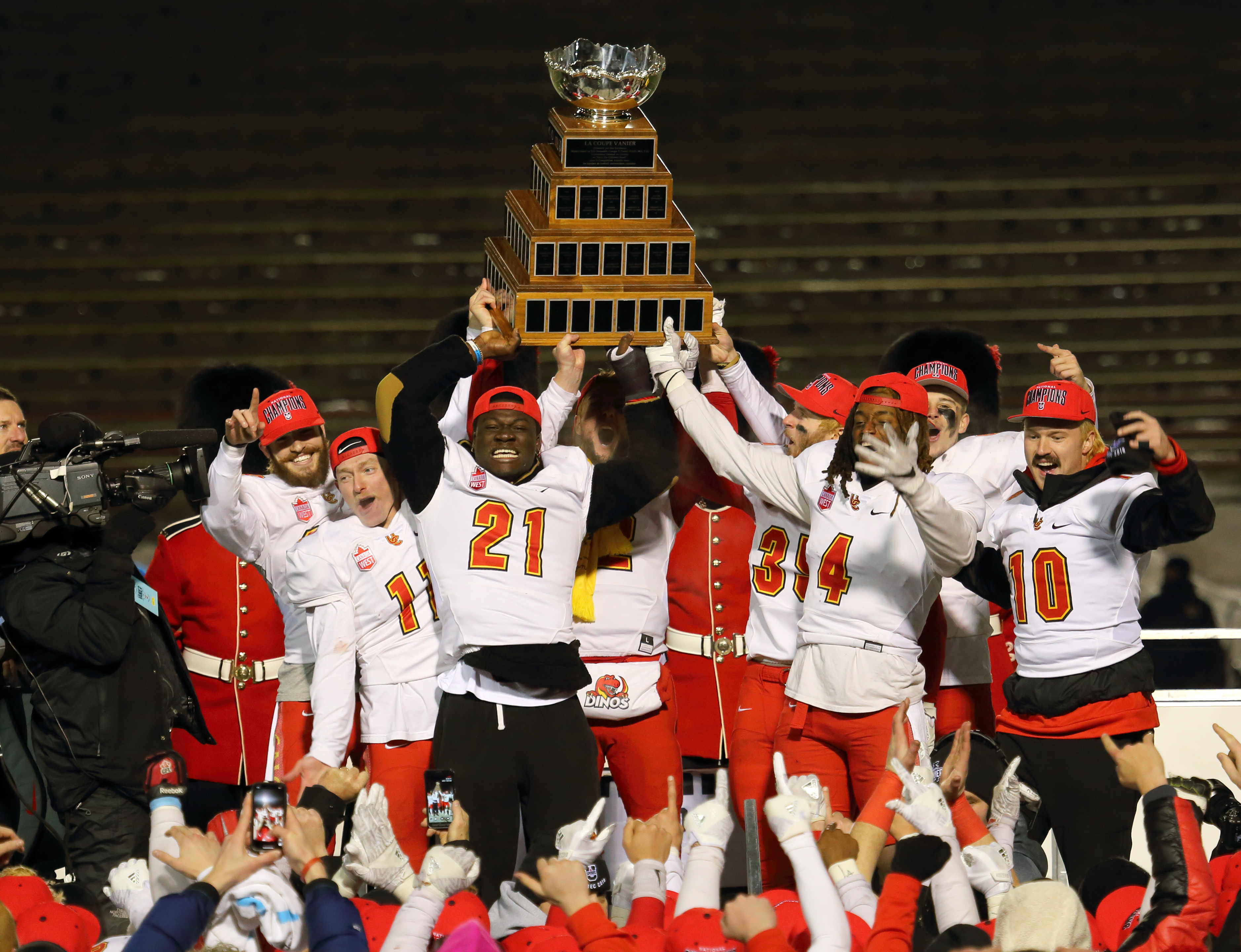 2019 Vanier Cup, 55th edition, at the TELUS-Université Laval stadium. Calgary Dinos winner of the cup.